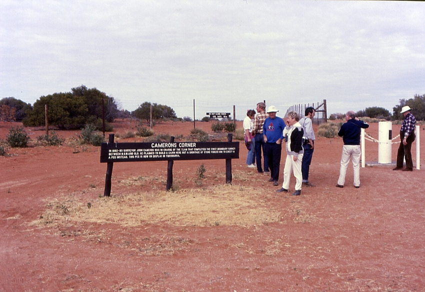 Camerons corner 090687